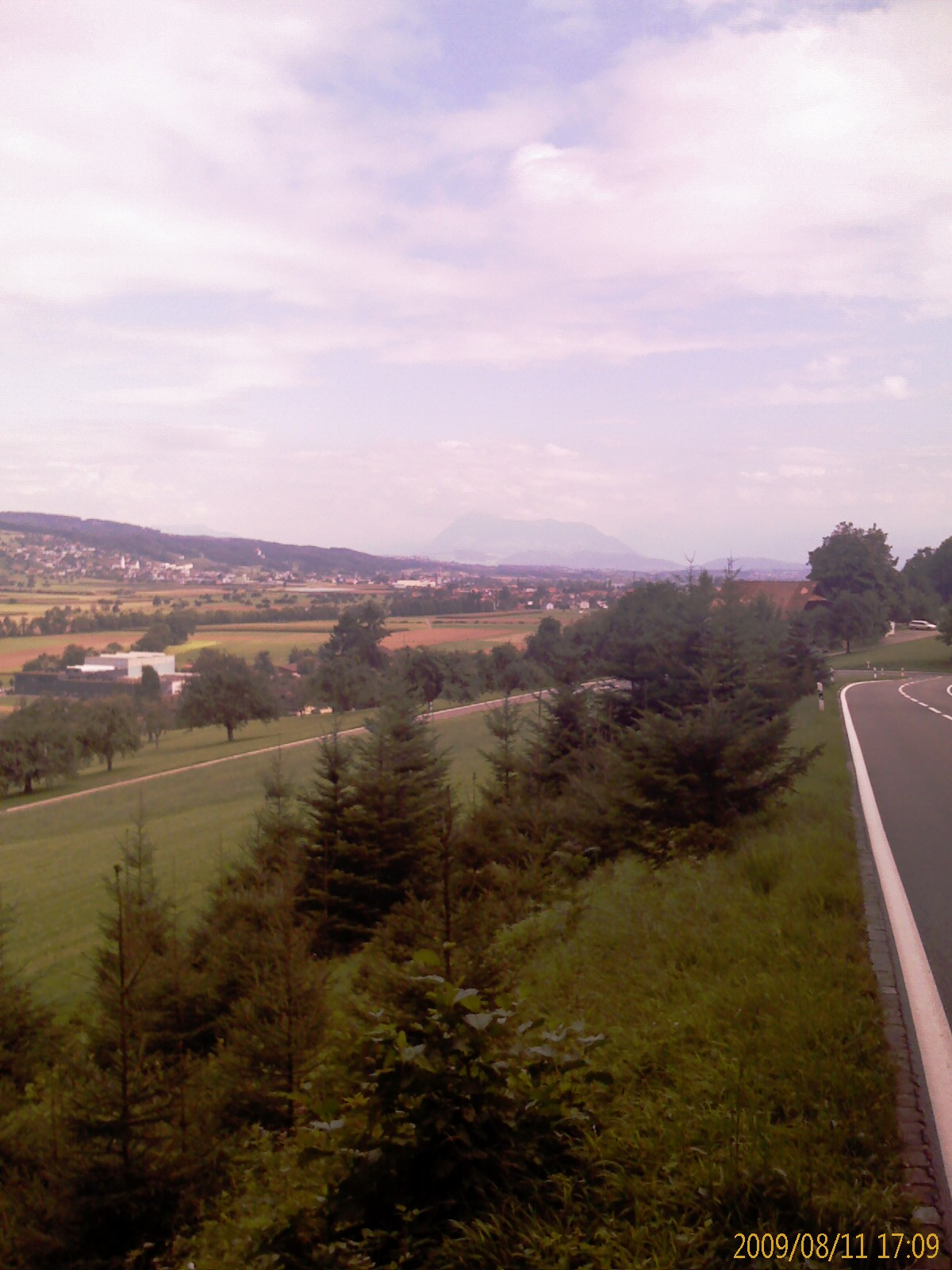 Ermensee, canton of Luzern, SwitzerlandEsperanto: Ermensee, Kantono Lucerno, Svislando